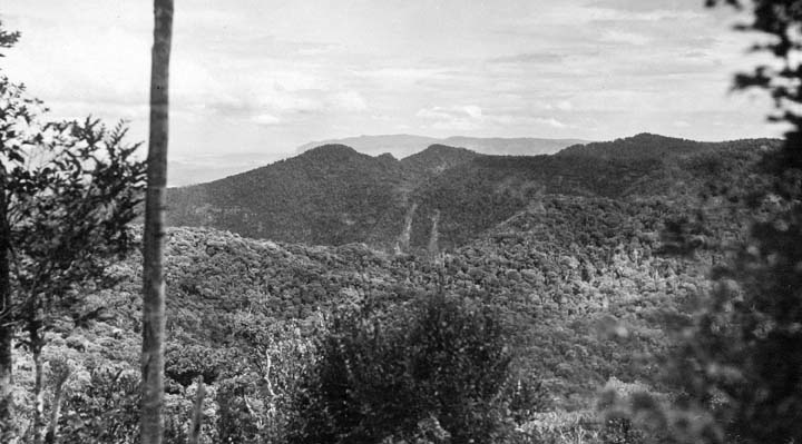 Looking from Bithongabel Lookout, Lamington National Park towards the McPherson Range, Beaudesert Shire. (The original photograph caption makes reference to Echo Gorge.)